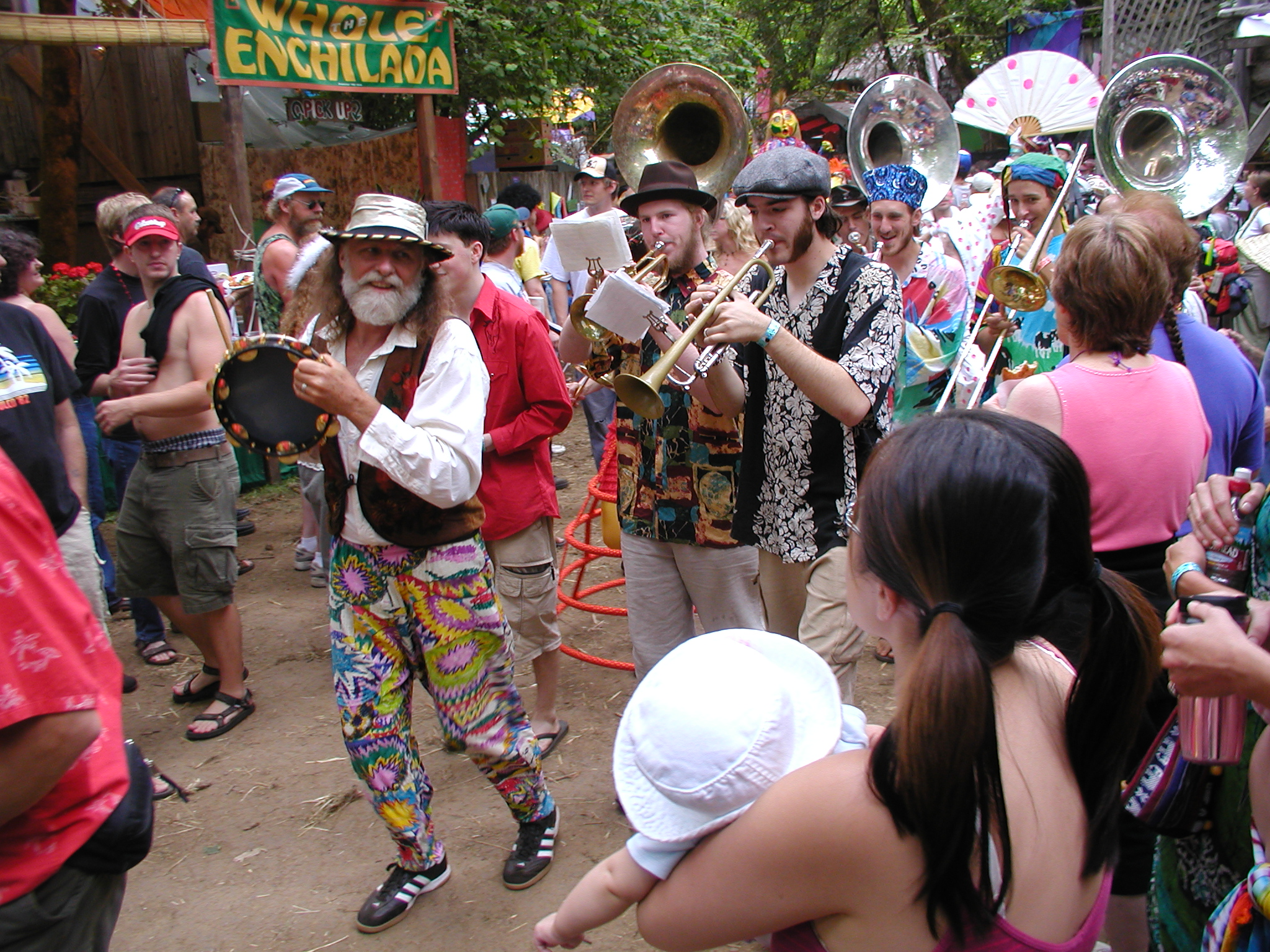 Brass band parading at Oregon Country Fair 2005